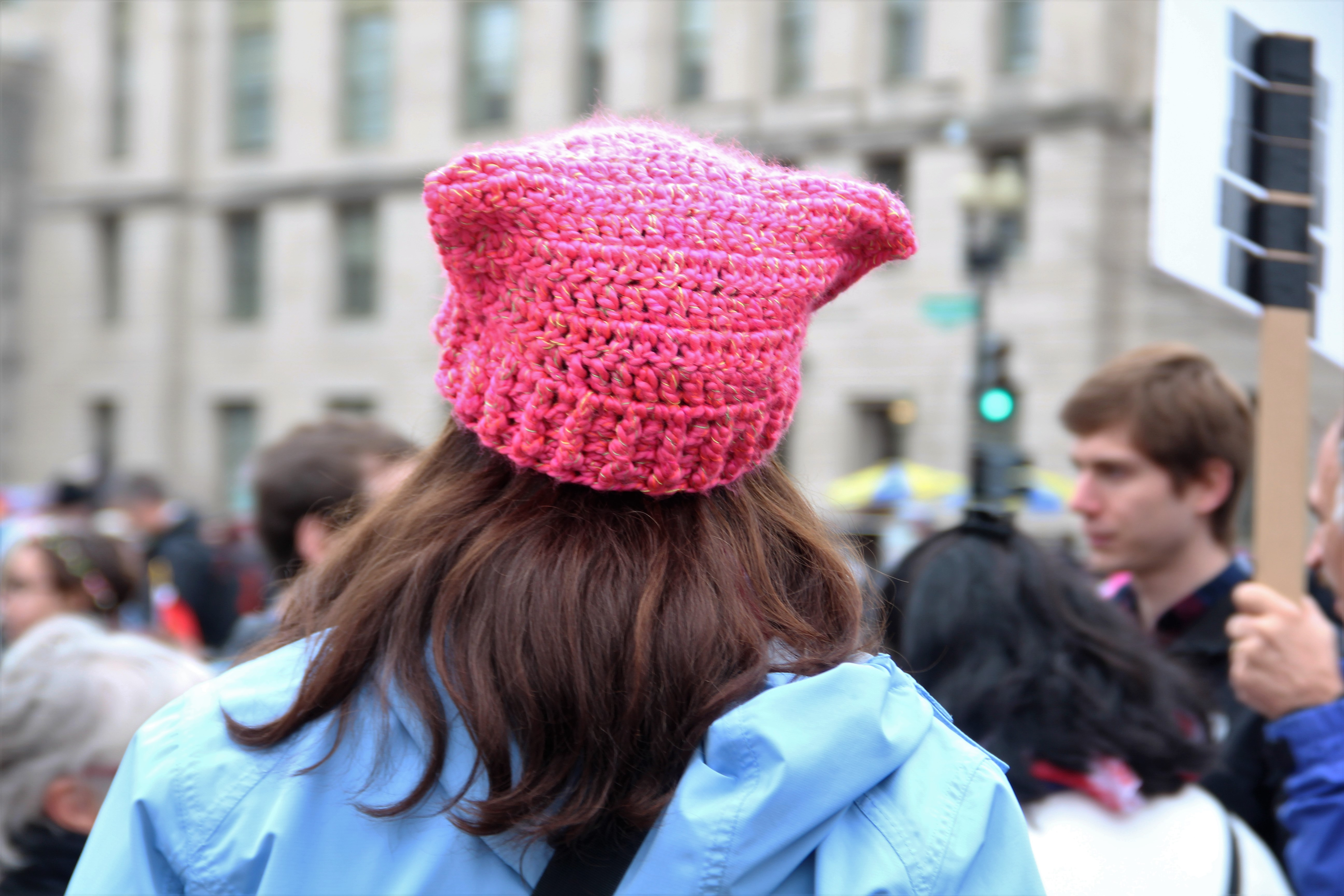 woman with pussyhat